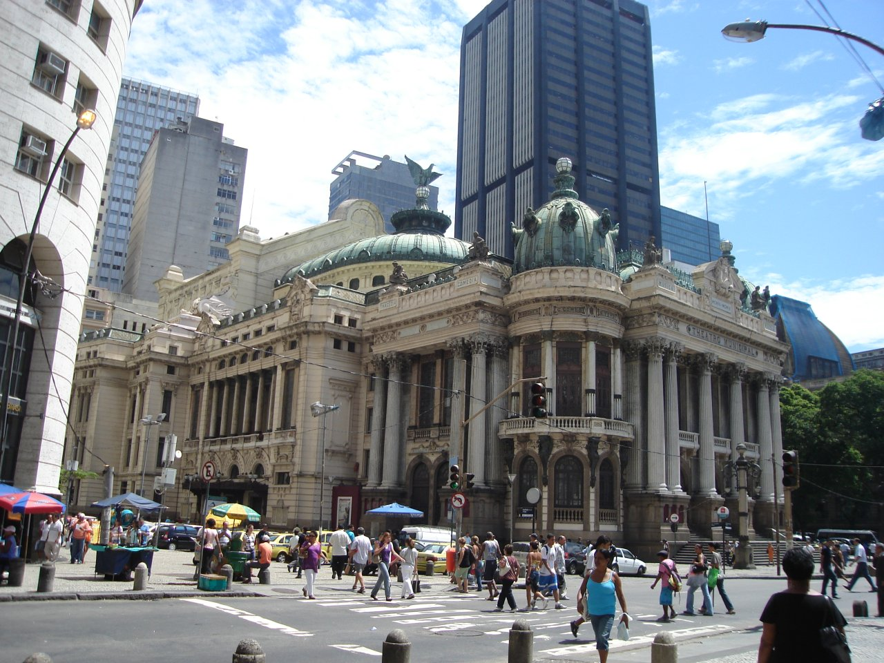 Municipal Theatre of Rio de Janeiro, Brazil.